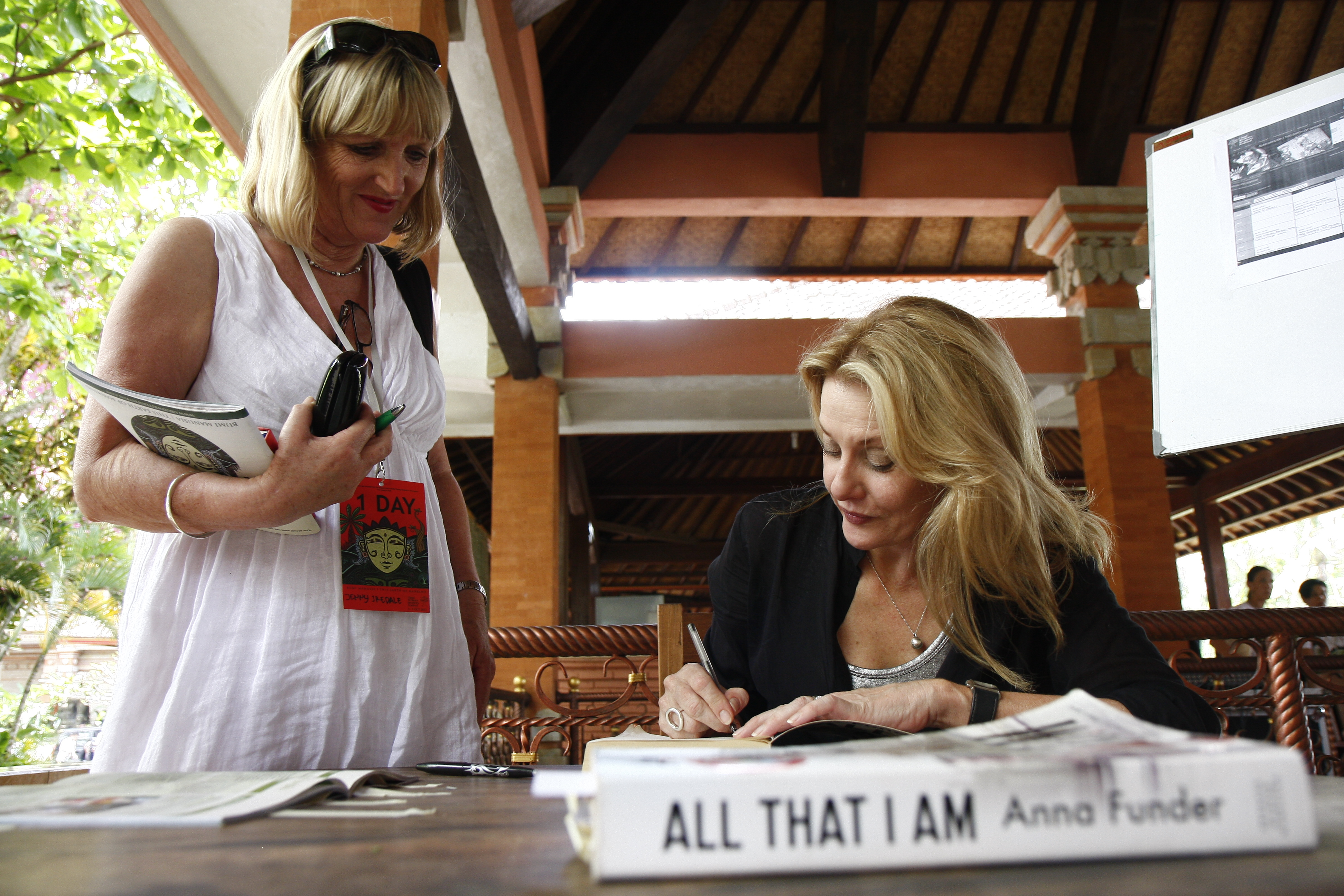 Ubud Writers & Readers Festival 2012. Image credit Stanny Angga.